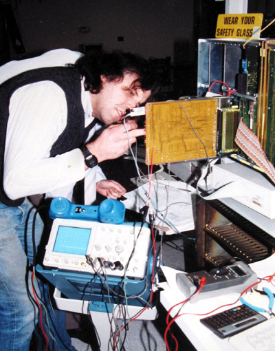 Paul Elliott, a hardware engineer at Optilink, working on the MTU of a Litespan in the late 1980s.